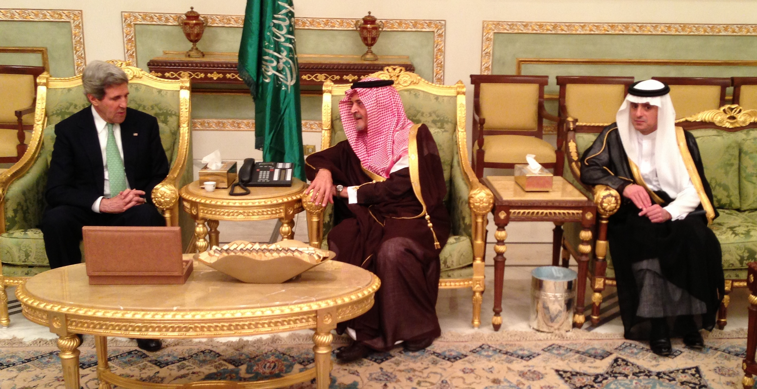 U.S. Secretary of State John Kerry meets with Saudi Arabian Foreign Minister Saud Al-Faisal and Saudi Arabian Ambassador to the U.S. Adel al-Jubeir in Riyadh, Saudi Arabia on March 3, 2013. [State Department photo/ Public Domain] Cropped by User:Andrew Dalby